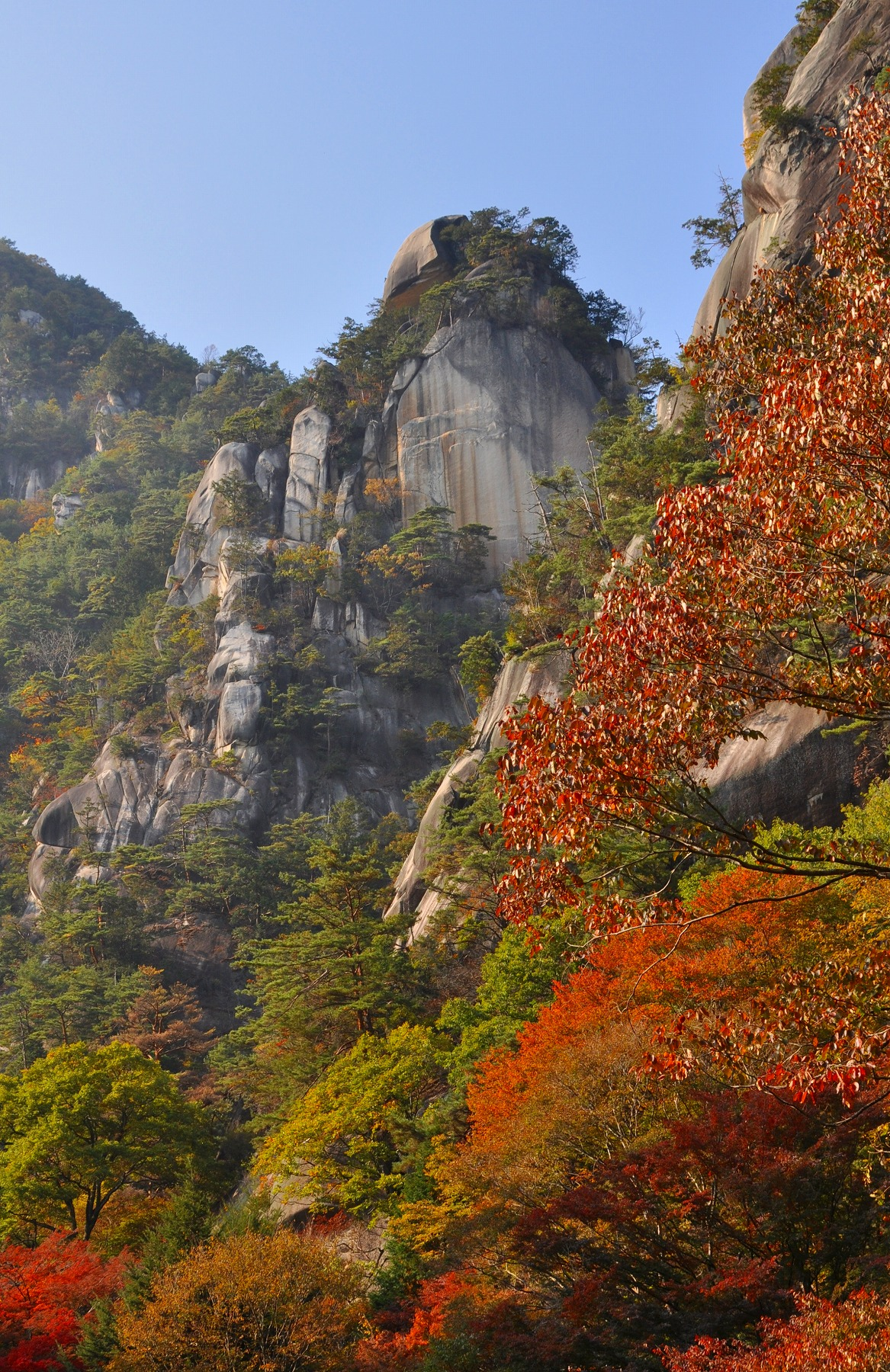 Kakuenpou in autumn（Shōsenkyō）